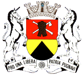 Coat of arms of the city of Sorocaba, State of São Paulo, Brazil.